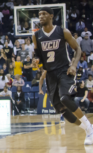 VCU vs. ODU basketball